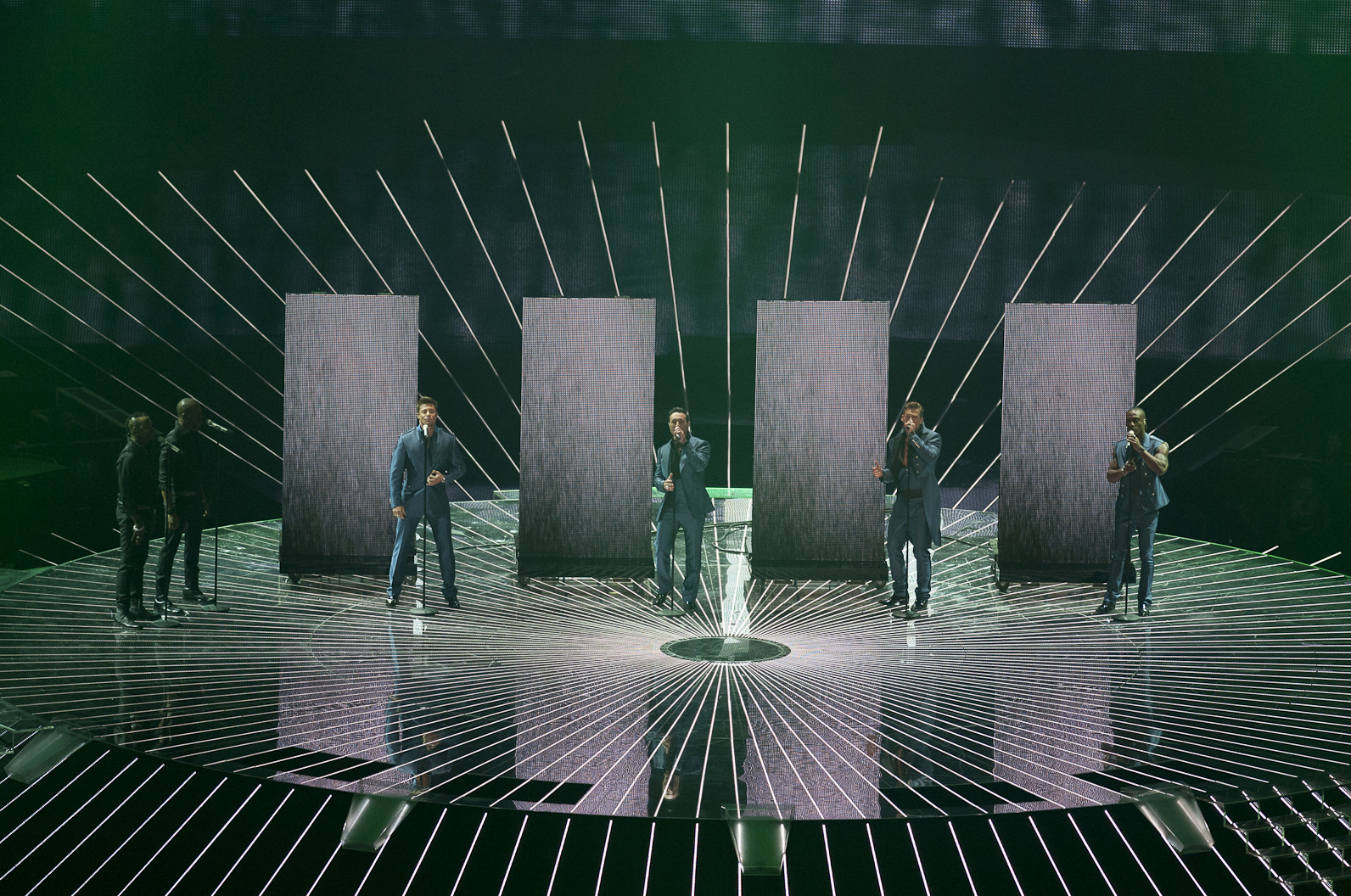 Blue, representing United Kingdom, performing at the Eurovision Song Contest 2011 final on 14 May 2011.